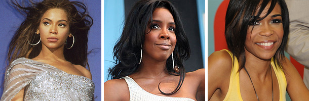 Beyoncé Knowles performing "Listen" during "The Beyoncé Experience" in Munich, Bavaria, Germany. Kelly Rowland 4 - Rowland appearing in 2009 at the 'Love Music Hate Racism' music festival in Stoke-on-Trent, United Kindom Autograph Signing with fans